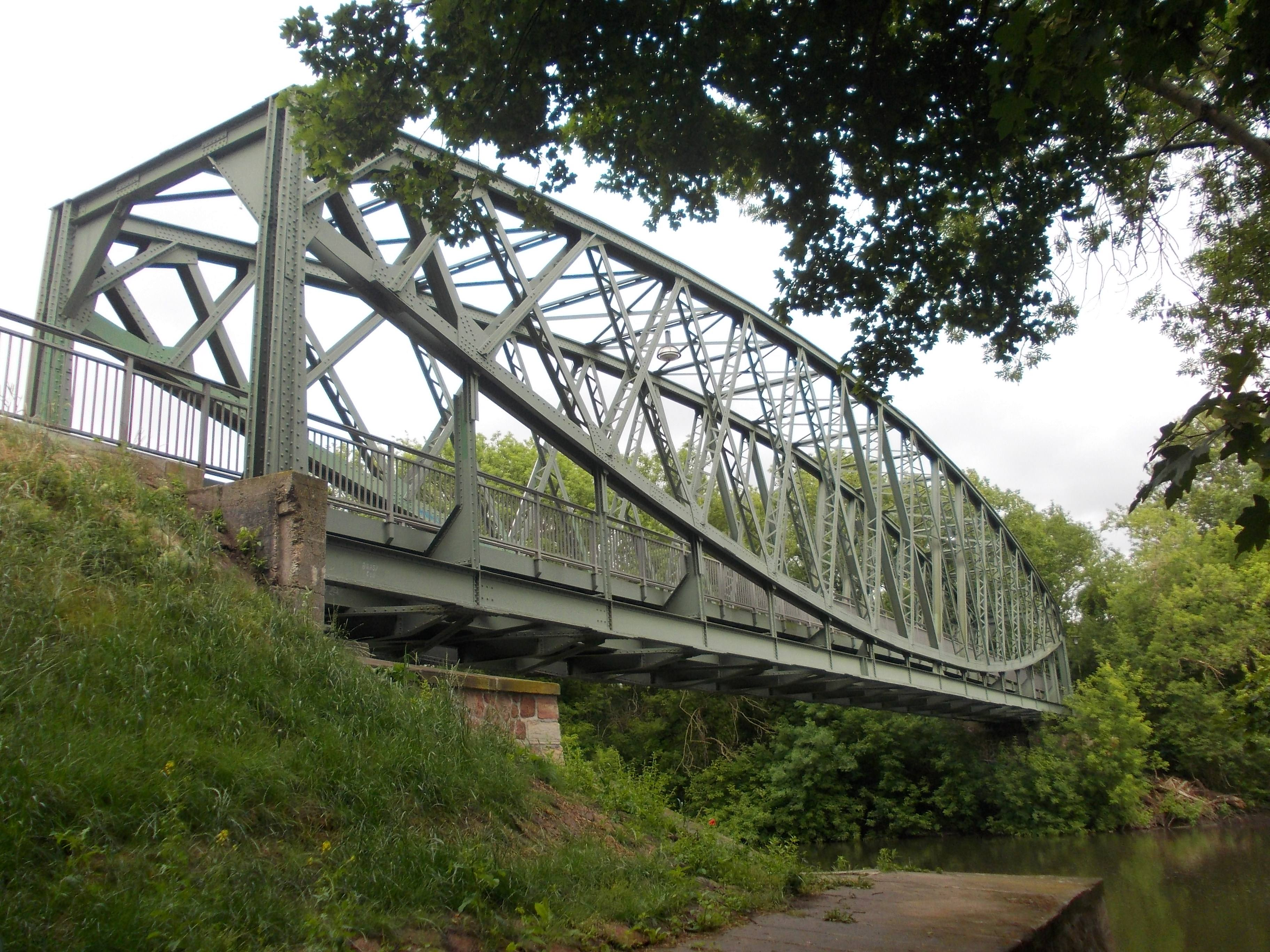 Port Railway Bridge over the Saale in Halle (Saxony-Anhalt)